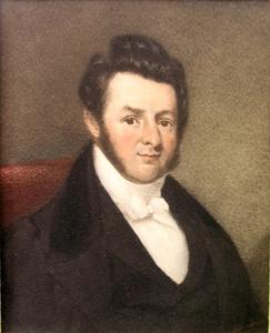 Portrait in oils of James Bonnin, property developer of Brompton, London. Artist unknown.